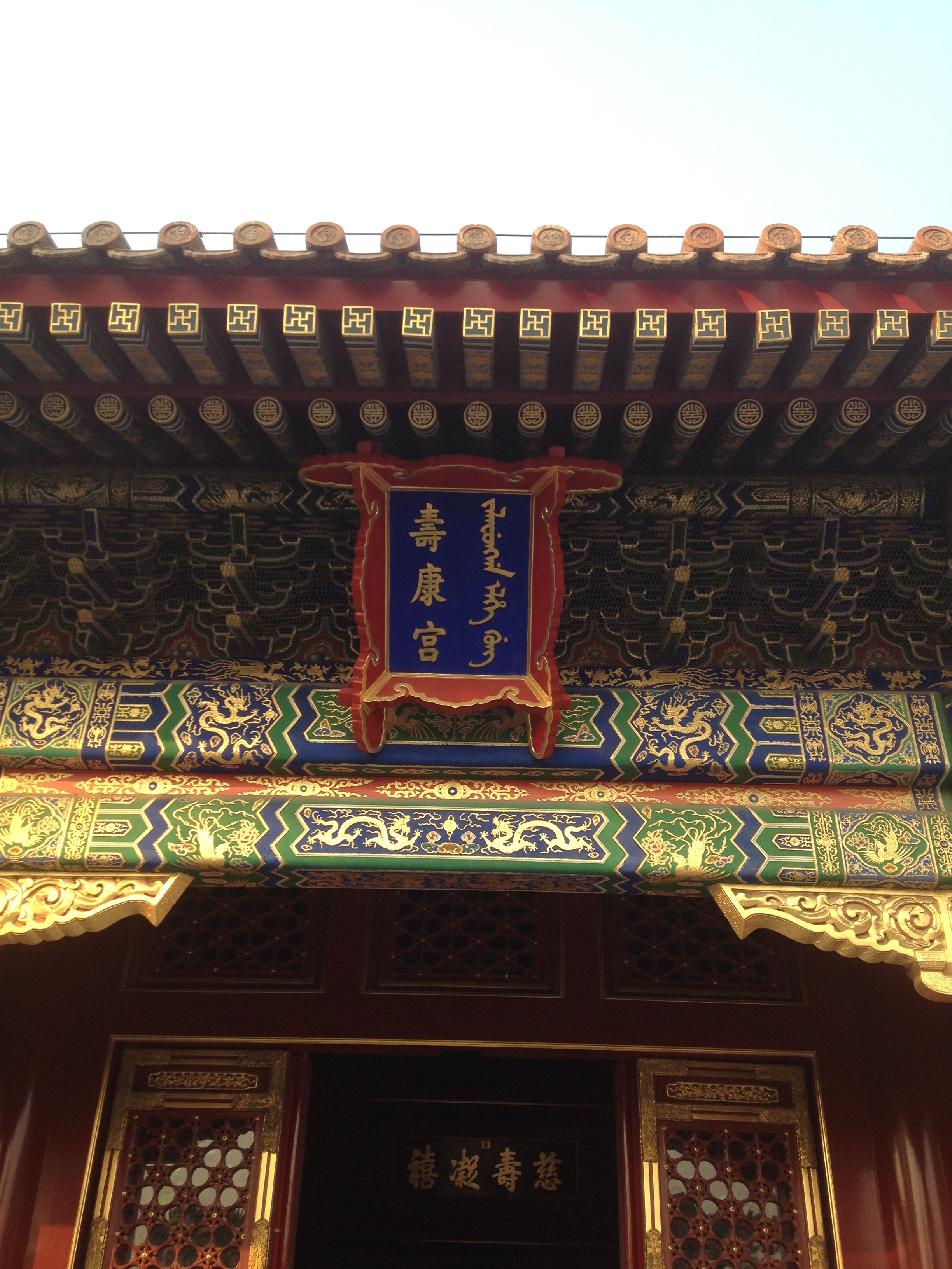 Palace of Longevity and Good Health (view N) 中文（中国大陆）: 北京故宫中的寿康宫